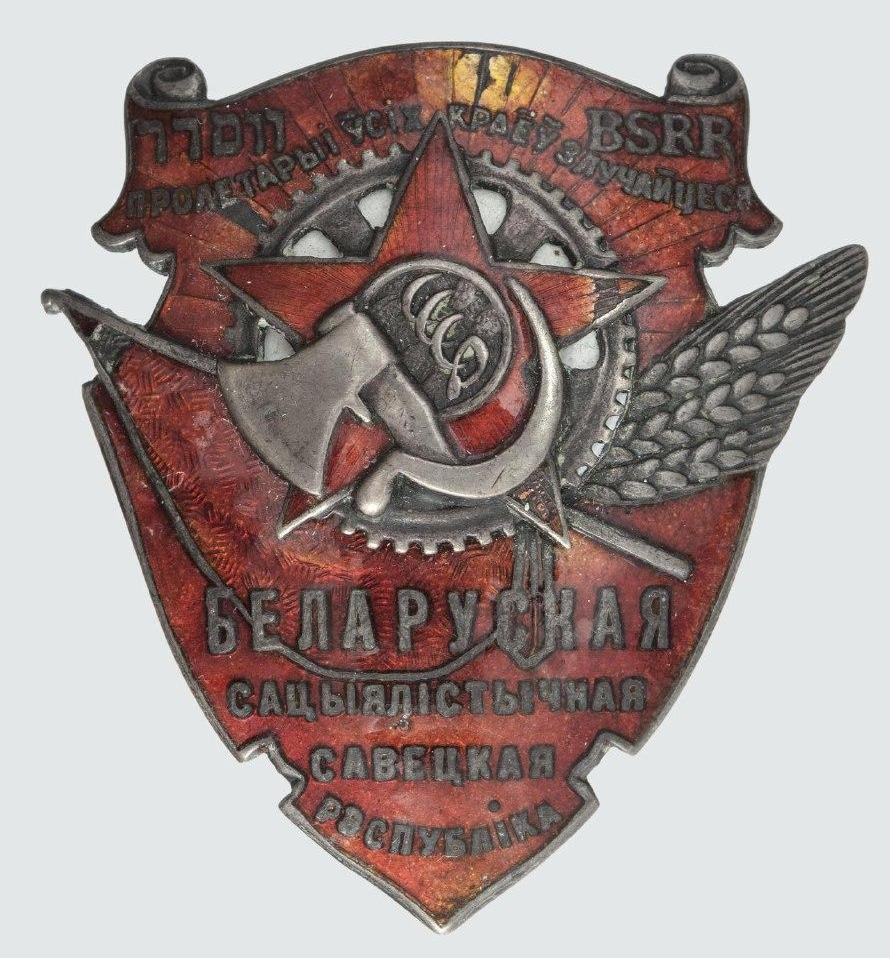 Order Of The Red Banner Of Labour BSSR